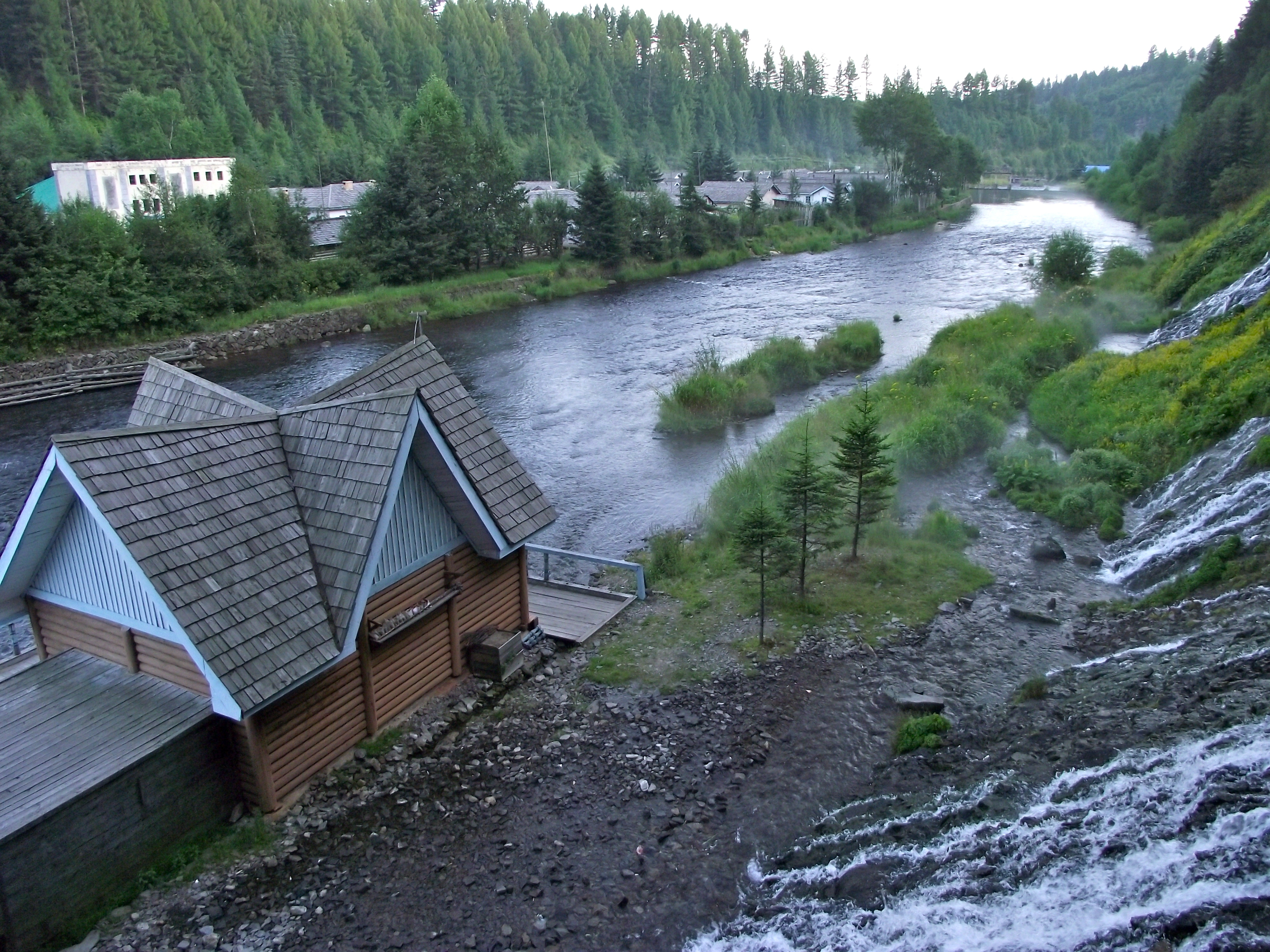 Small hydroelectric plant under the Rimyongsu Falls